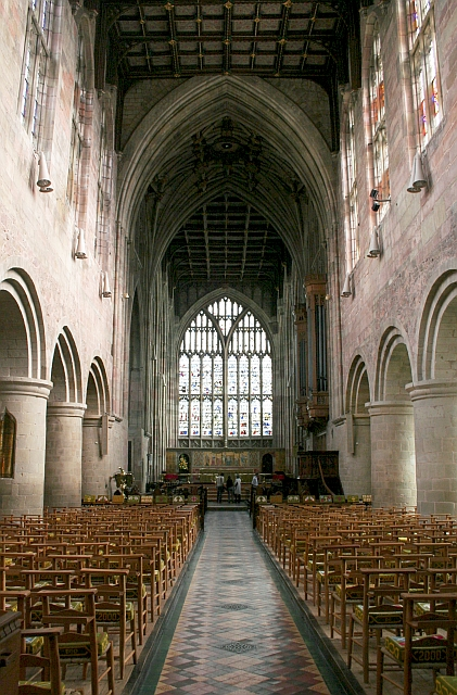 Nave of Great Malvern Priory Church Looking east towards the altar. Work began in 1085. The older round columns and rounded arches date from the early period. Much of what else remains including the upper section of the nave dates from the expansion in the years between 1440 and 1500.